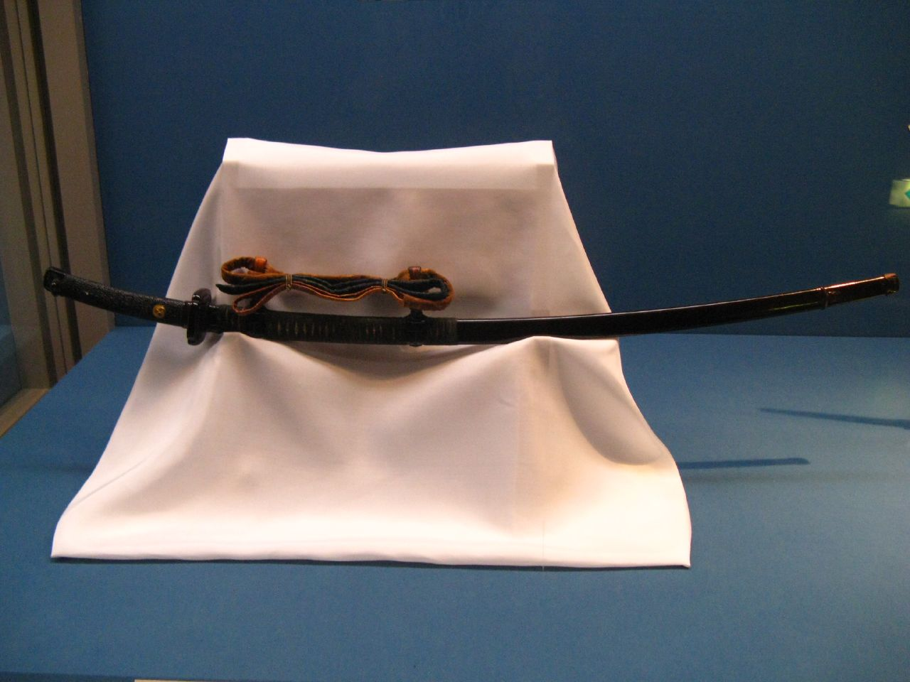 Antique Japanese (samurai) Tachi koshirae, Tokyo National Museum.